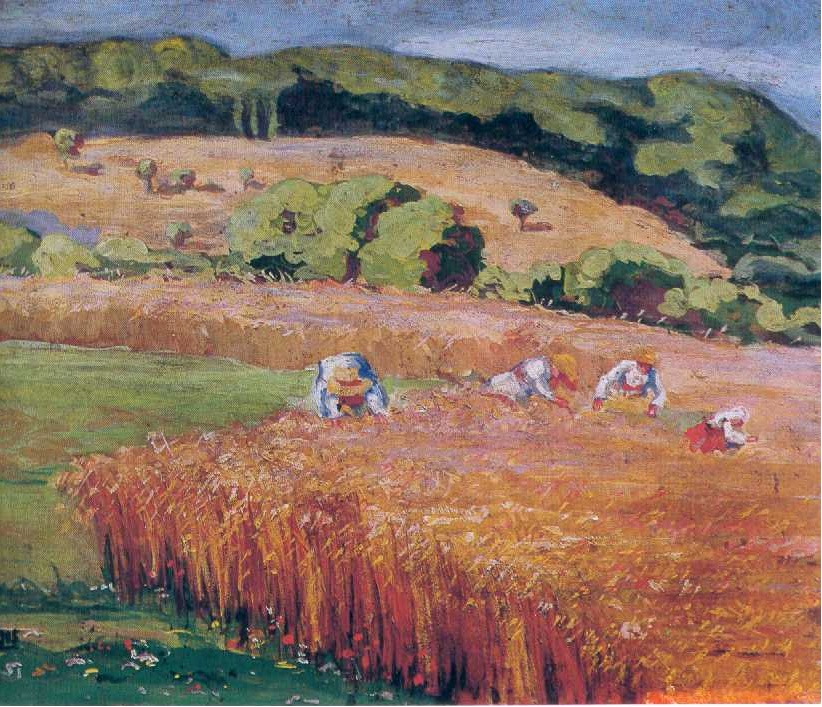 La Moisson